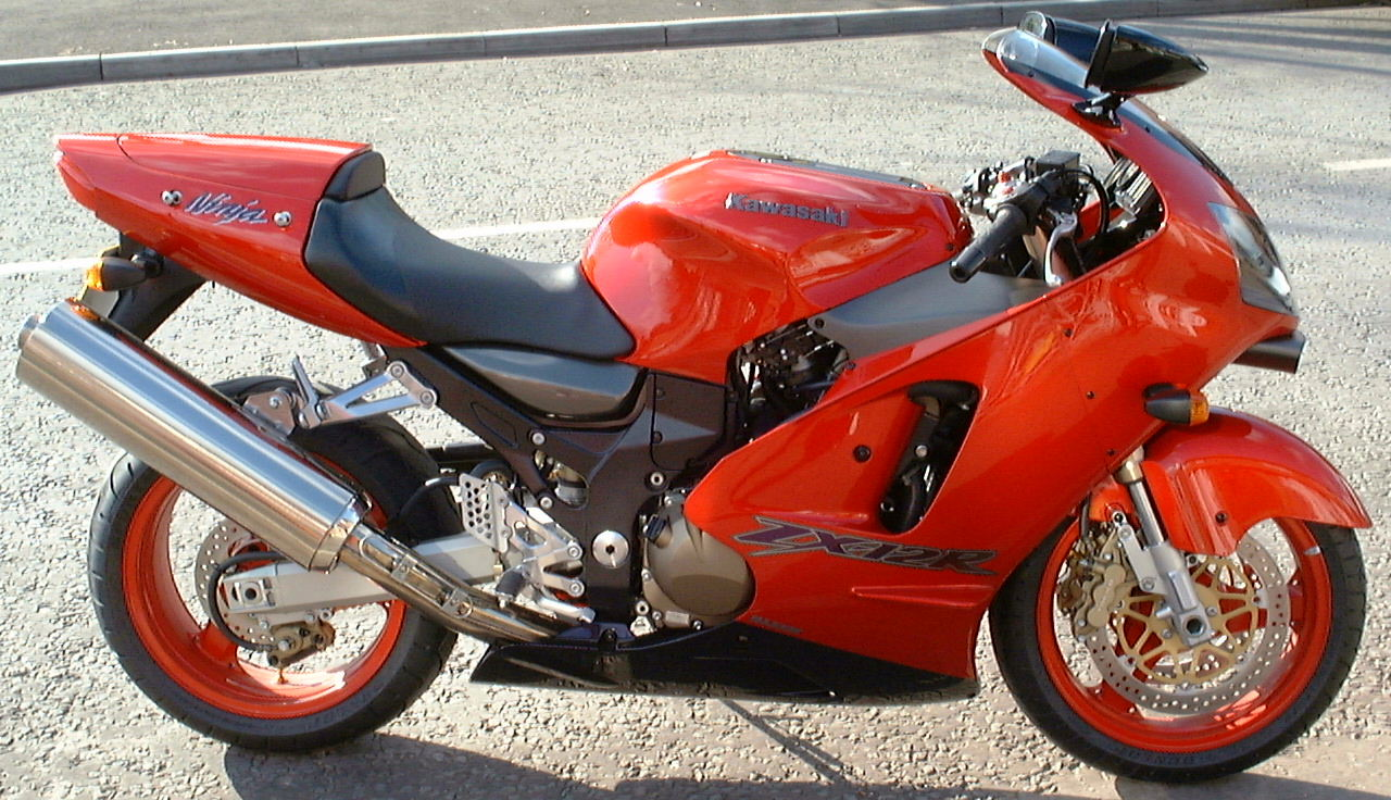 The contributors own Kawasaki ZX-12R Photo taken about an hour after the contributor had taken delivery!